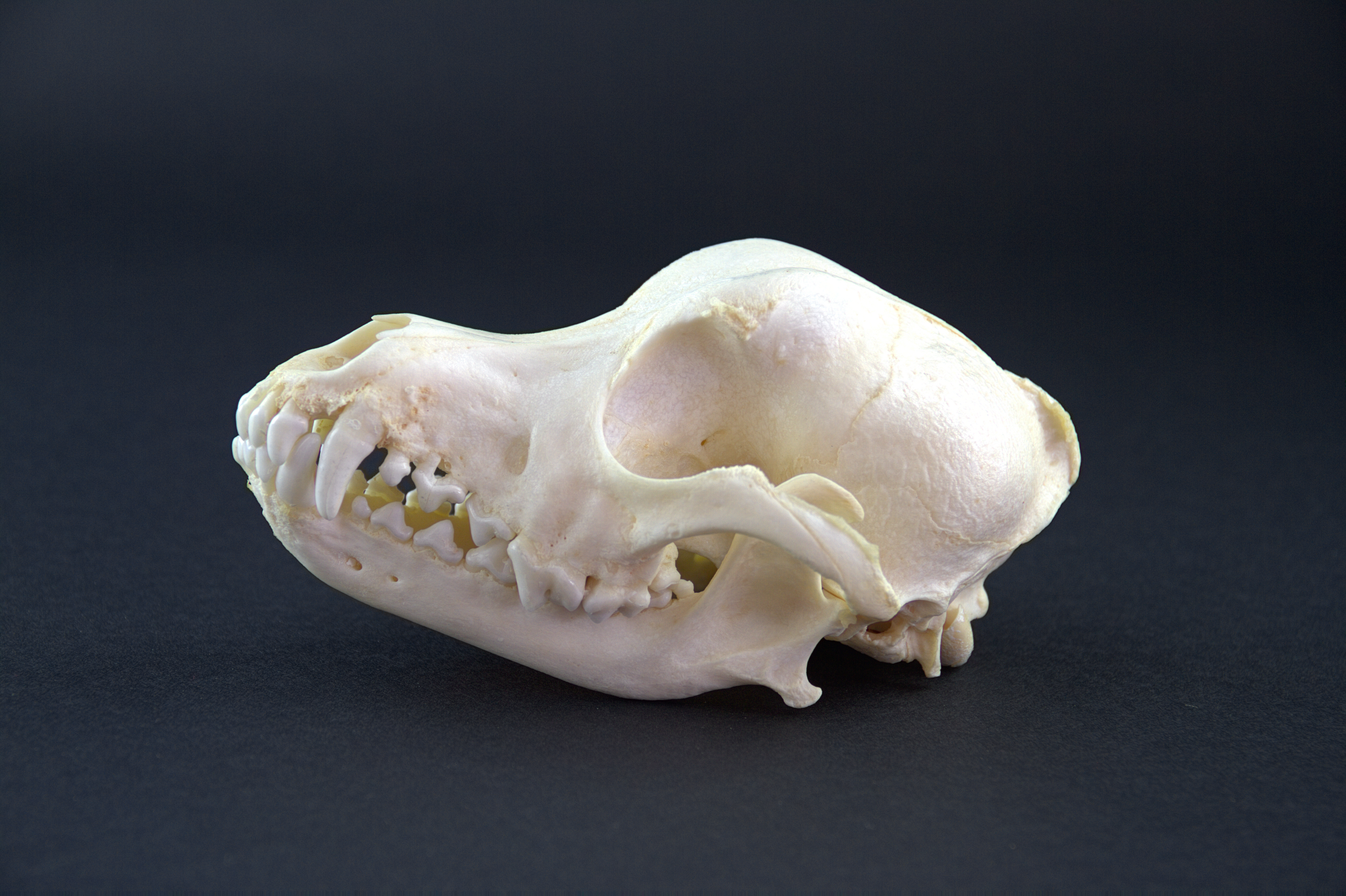 Cranium of a canis lupus familiaris (poodle), lateral view.